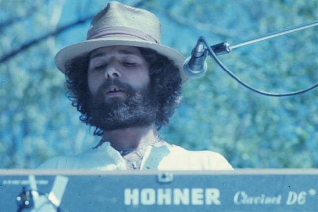 Taken at the Pinecrest Country Club, Shelton, CT.